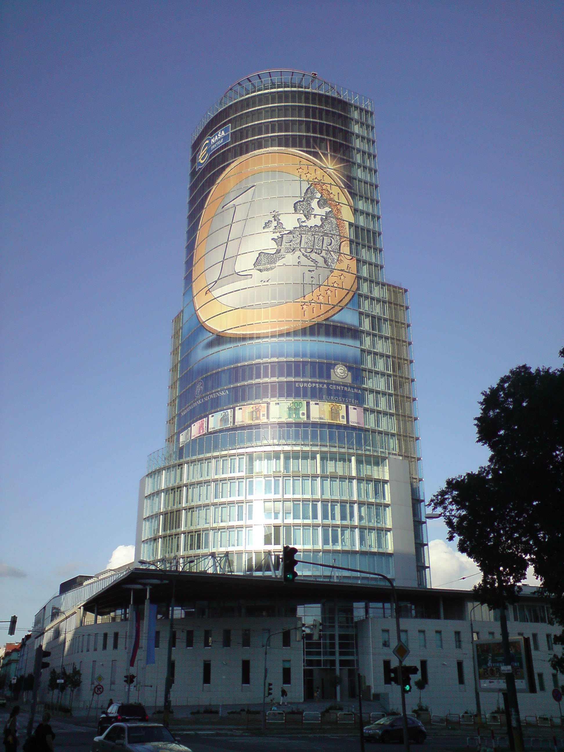 National bank of Slovakia